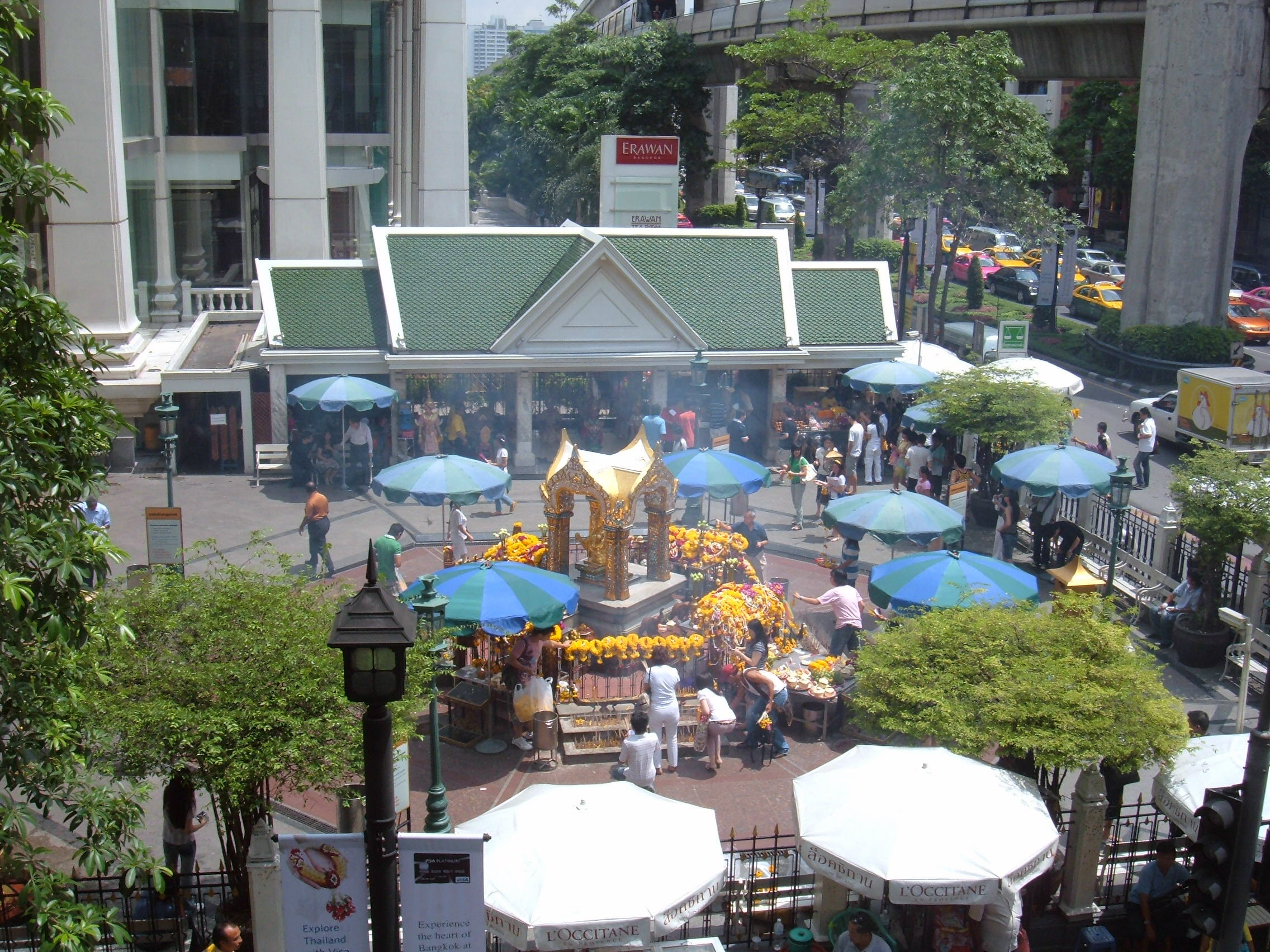 The Erawan Shrine in Bangkok, Thailand as seen from a pedestrian walkway.